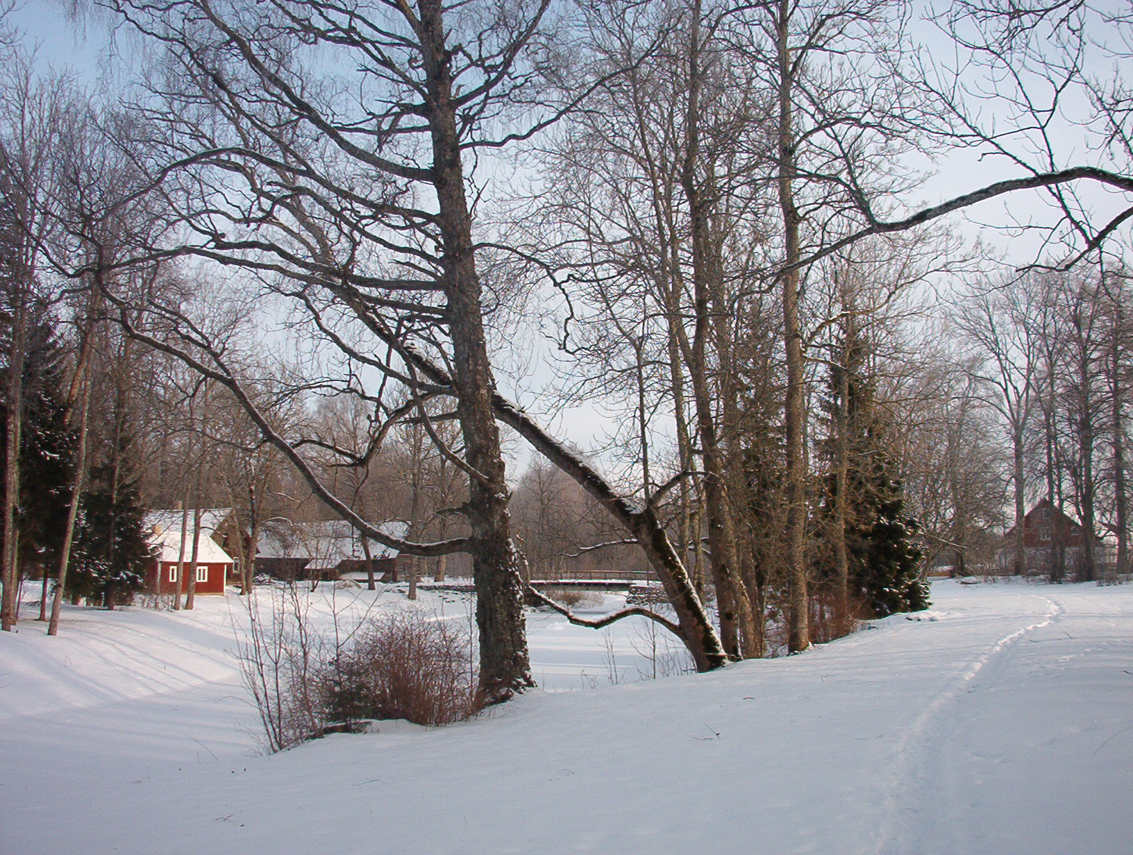 Pirgu manor park